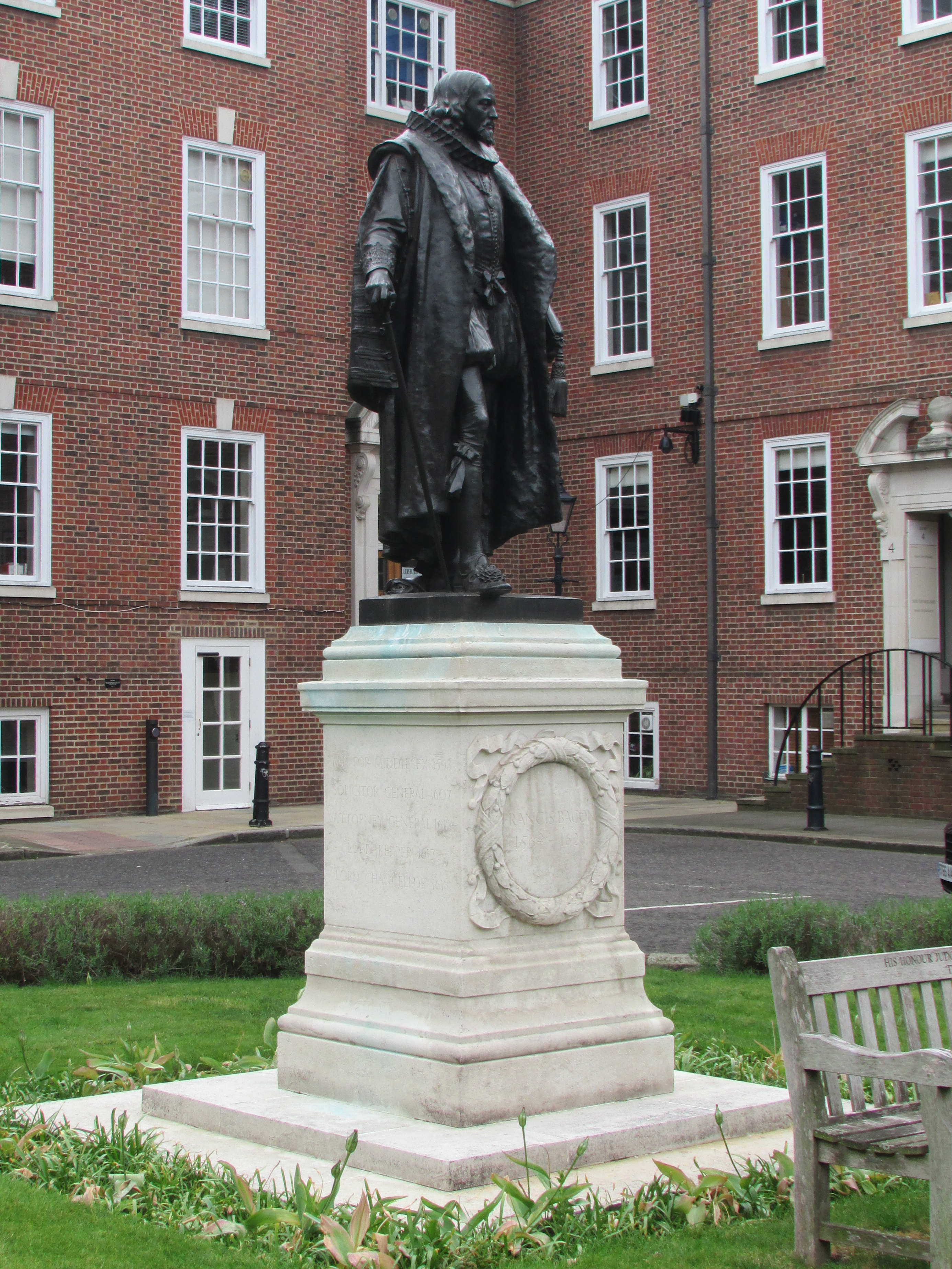 South Square, Gray's Inn, London. Designed by Frederick W Pomeroy and erected in 1908 to mark the tercentenary of Bacon's election as Treasurer of Gray's Inn